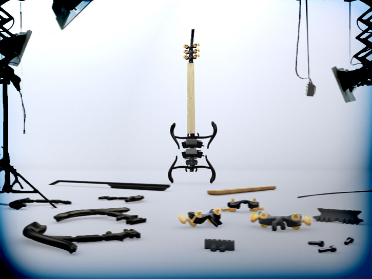 Zoybar is an open R&D Lab for academic, hobbyist, and commercial developers to easily create music instruments and applications. Zoybar manufacture and market fully produced modular hardware kits for those who are interested in experimenting with electric guitars physicality. As a modular platform Zoybar`s kits can be altered and customize by the end users themselves. Zoybar was one of the first commercial open hardware companies that released its production CAD files for non commercial use. By providing access to their production files and partnering with third party rapid production services, Zoybar enabled their users to become active developers that communicate on unifying virtual and physical platforms.